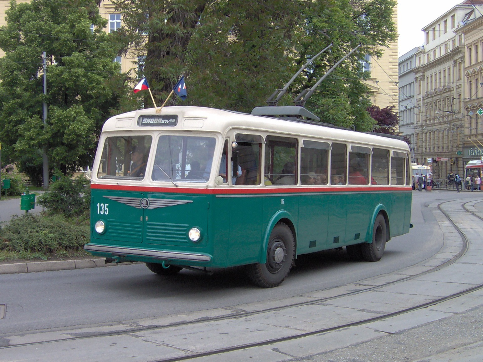 Historical Škoda 6Tr2 trolleybus in Brno (the car come from Plzeň, now possession of Technical museum Brno)